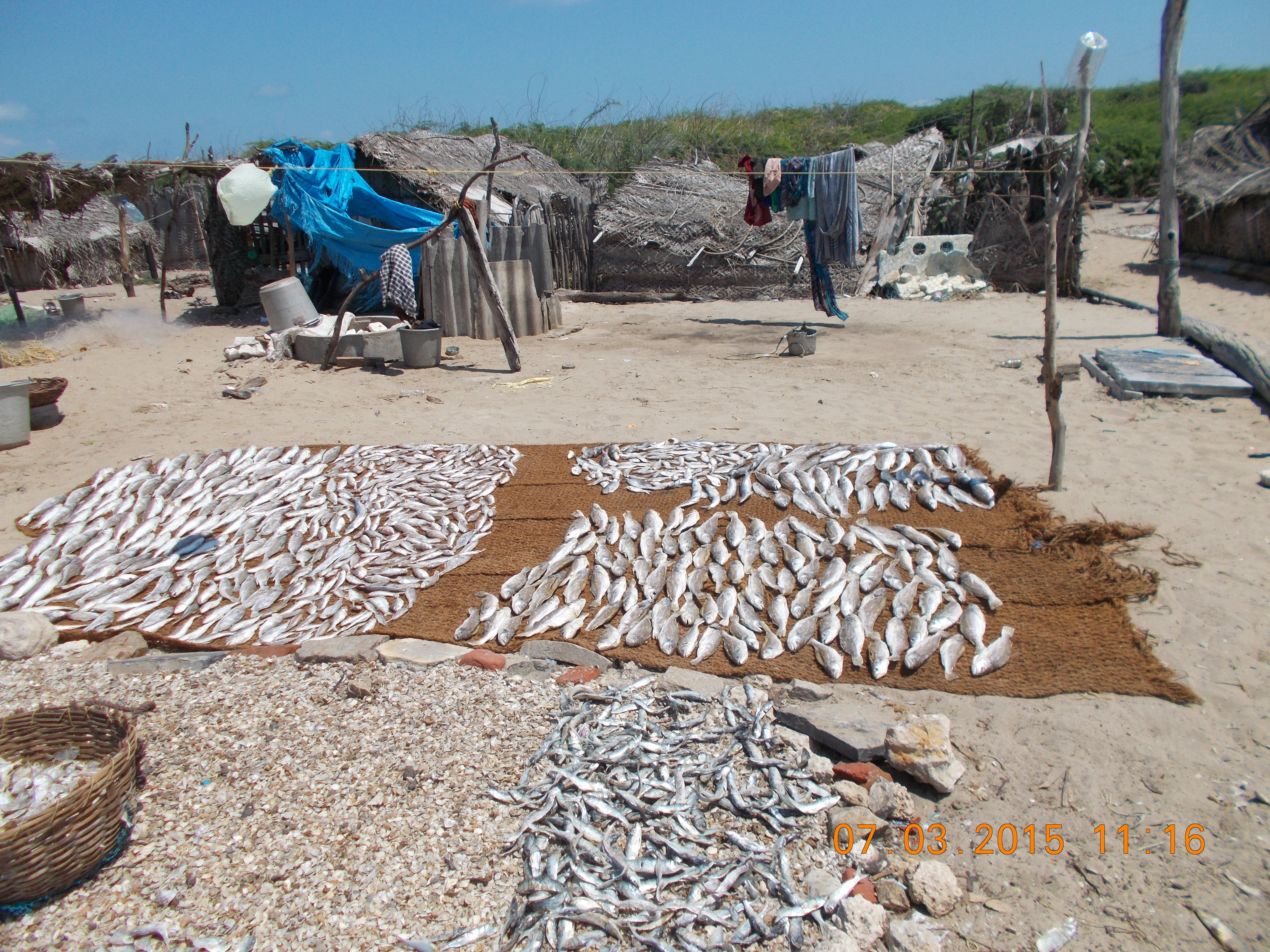 "Mugundakai Satiram(Tamil)",Fishing village in Dhanushkodi.